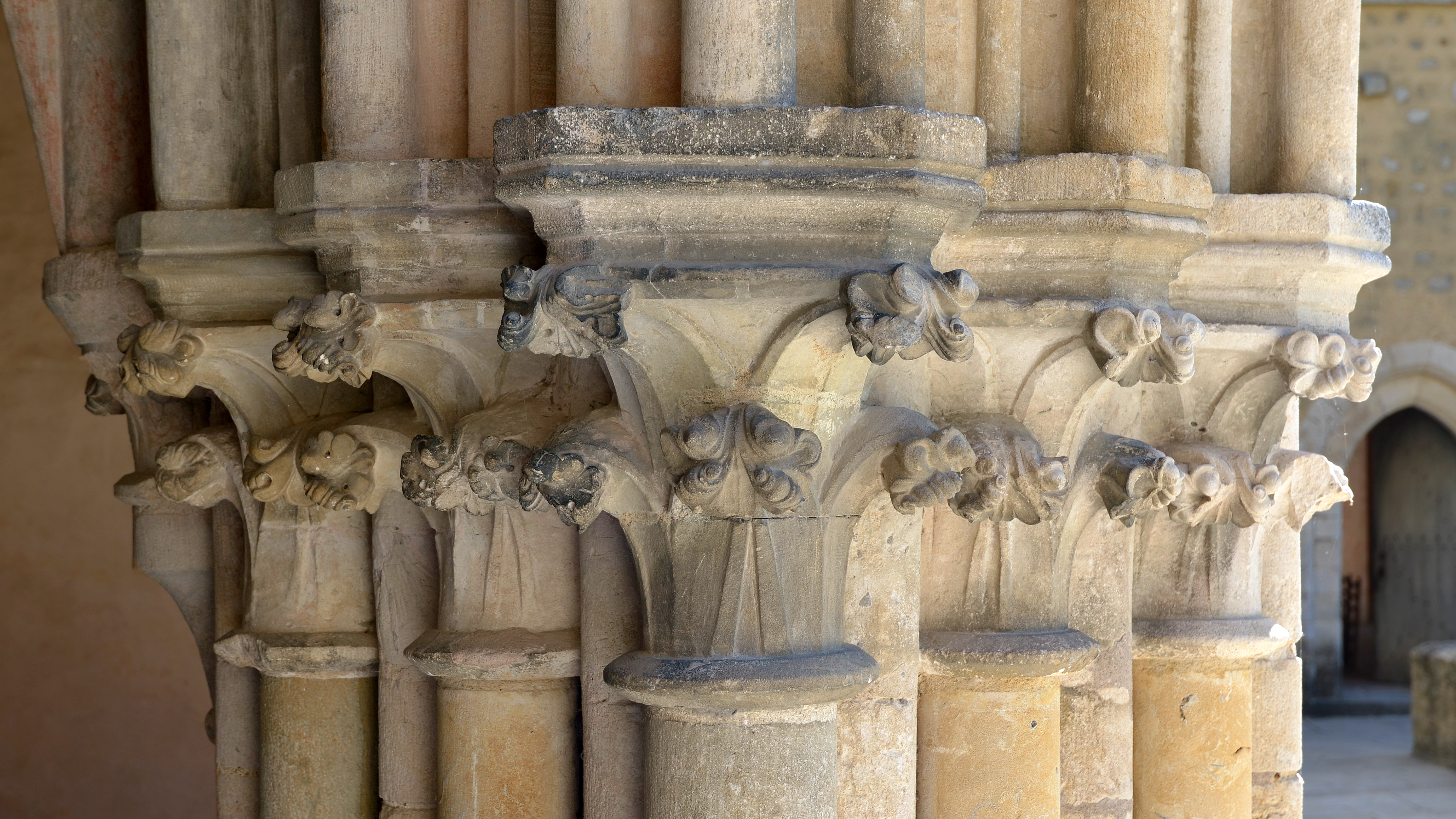 Capitals of the chapter house in the of Épau abbey - Yvré-l'Évêque, Sarthe, France .